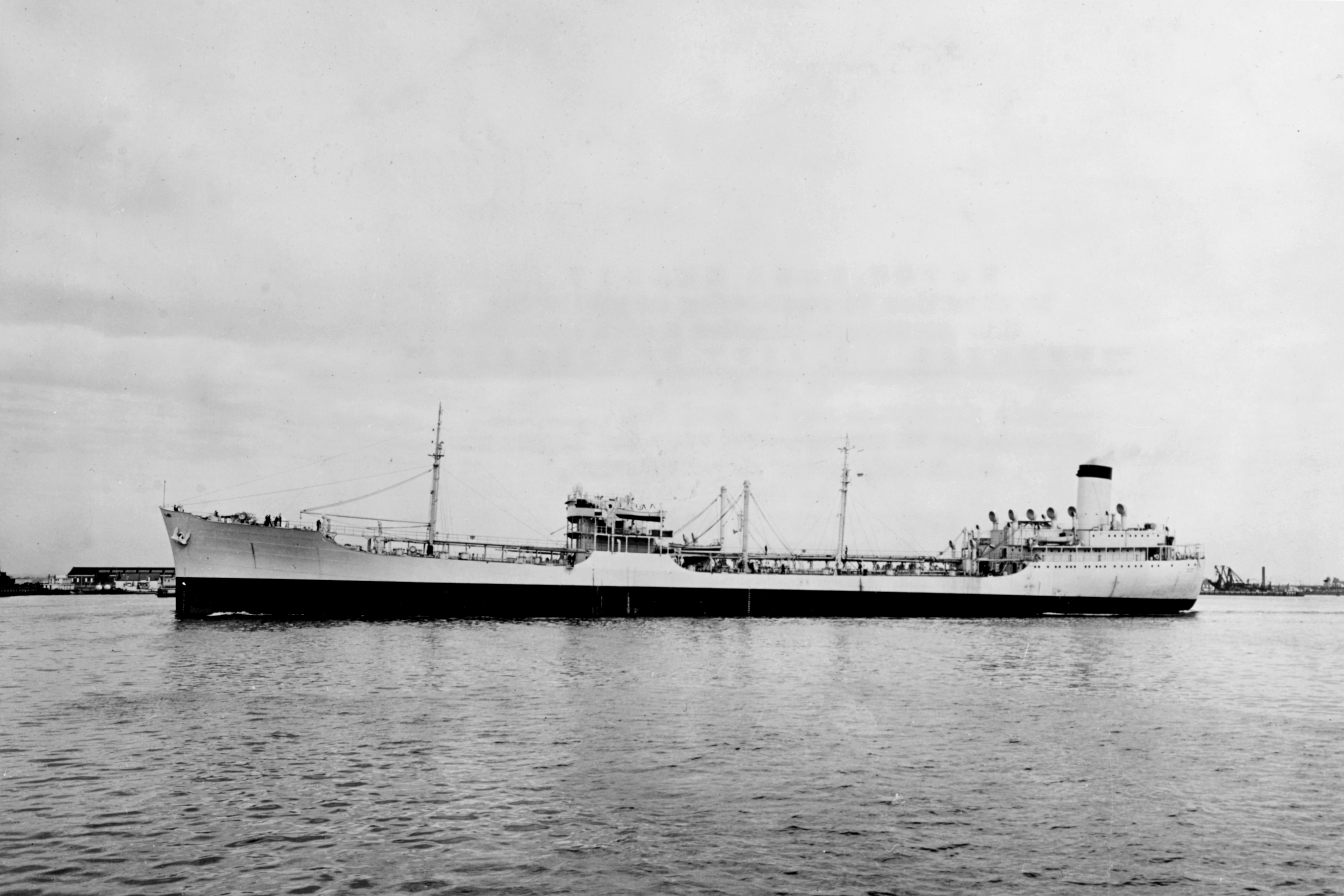 The U.S. Navy fleet oiler USS Neosho (AO-23) at the time of her commissioning, circa mid-1939.